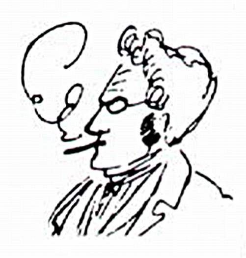 Bildnis Max Stirners um 1841/42 Enlargement of the image for Stirner, in a cartoon by Friedrich Engels (1820-1895) of one of the meetings of the group "Die Freien", a philosophical gathering of Berlin in the early 1840 in which Max Stirner participated.